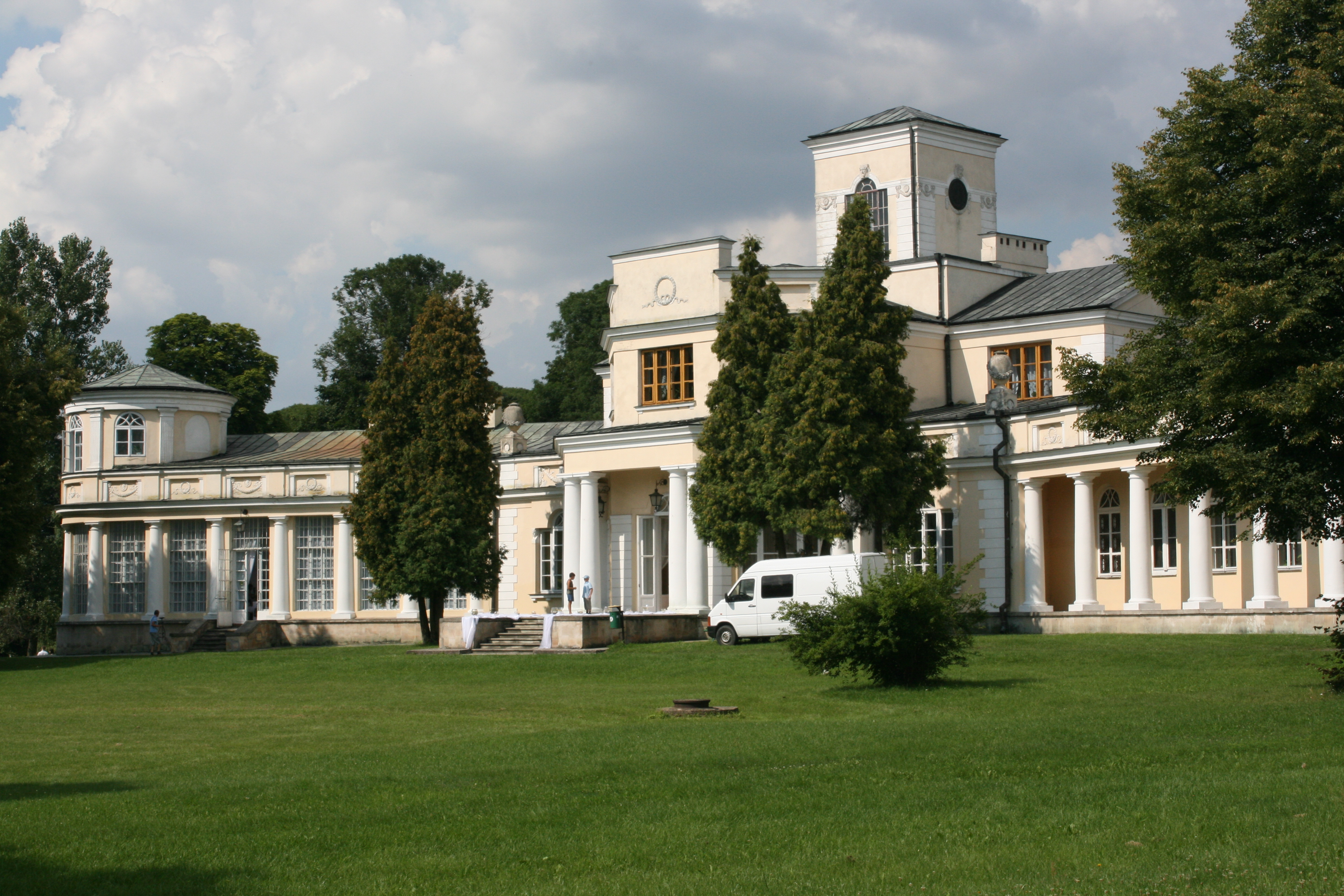 Palace in Rejowiec, Poland